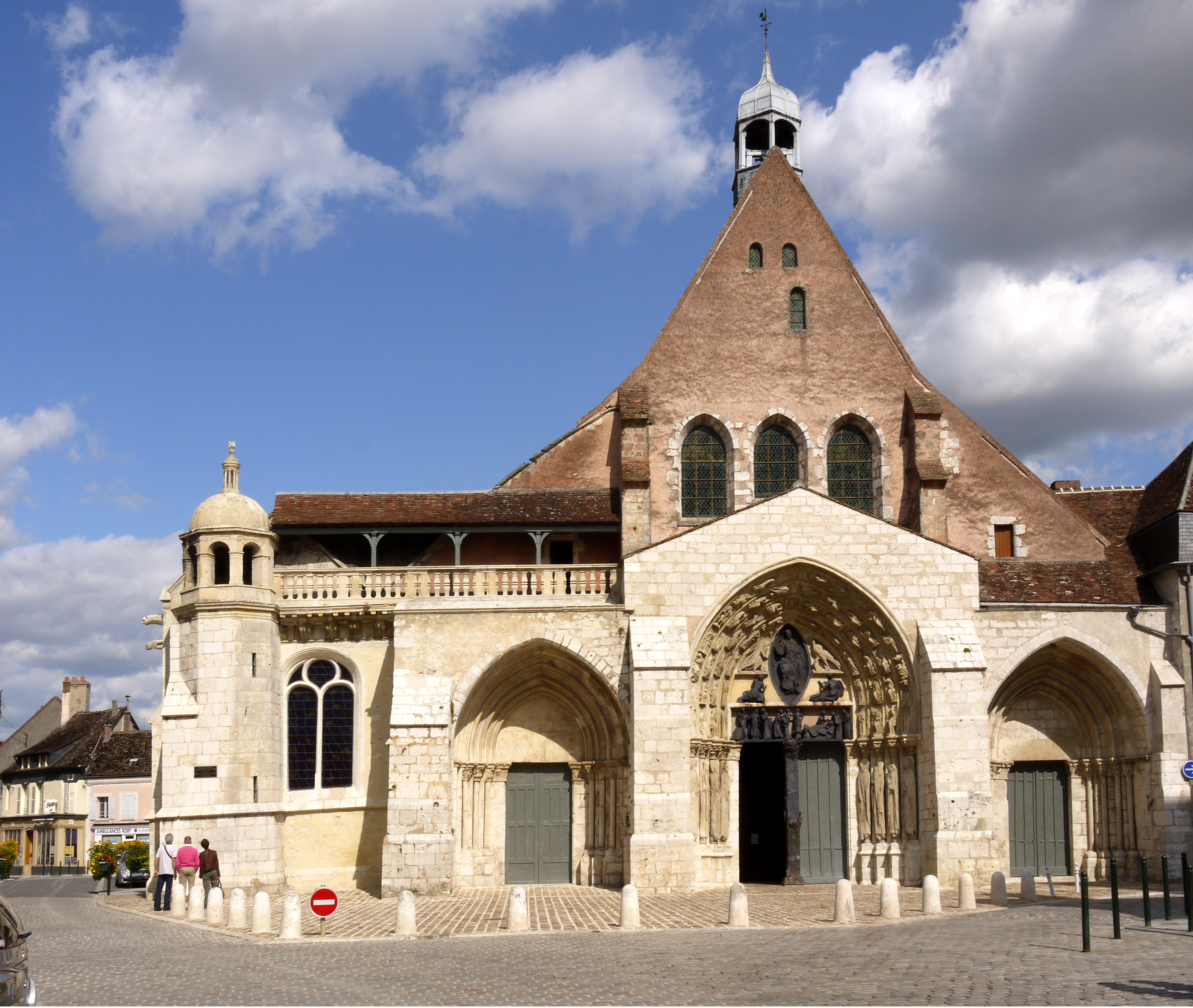 Church-of-Saint-Ayoul-in-Provins, France